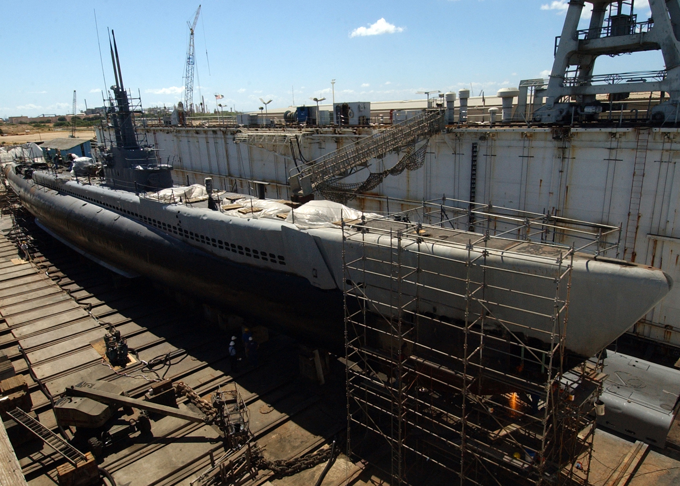 Pearl Harbor, Hawaii (Oct. 5, 2004) — Marisco Ltd. workers repair the aging hull of the decommissioned Balao-class submarine USS Bowfin (SS-287) at their shipyard near the former Naval Air Station Barber's Point, during a restoration project. Bowfin has served as a floating museum for 23 years, and is moored next to the USS Arizona Memorial Visitor's Center. Known as the "Pearl Harbor Avenger," Bowfin was launched one year to the day after Dec. 7, 1941 and was credited with sinking 44 enemy ships during the course of her nine extraordinary war patrols.